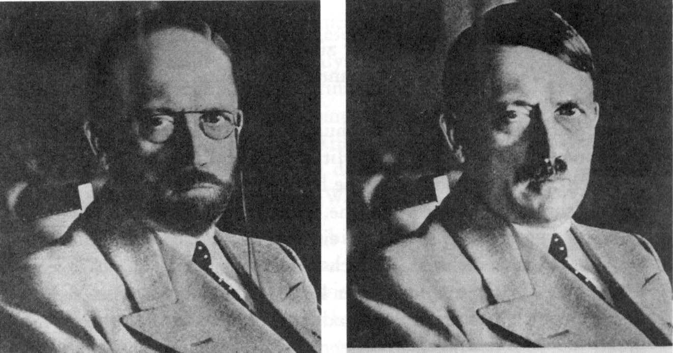 The picture depicts two versions of a photograph of Adolf Hitler that was retouched by an artist of the United States Secret Service in 1944 in order to show how Hitler may disguise himself to escape capture after Germany's defeat. Since Hitler's death was not a certainty in 1945 the pictures were posted up all over Germany in 1945 to ease finding the (potentially) "fugitive" dictator.